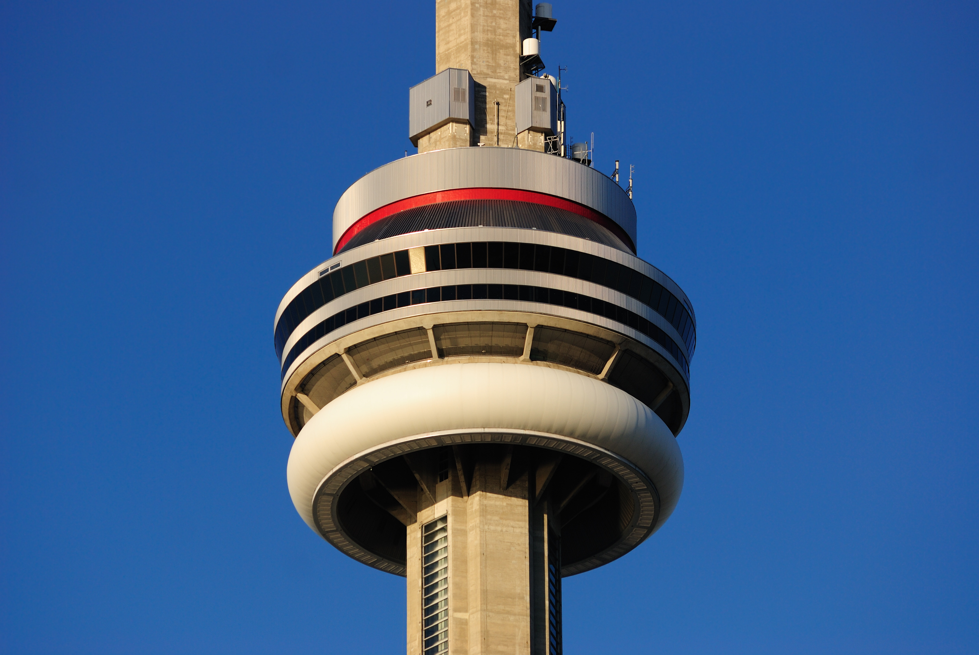 Main Pod of the CN Tower in Toronto, Canada